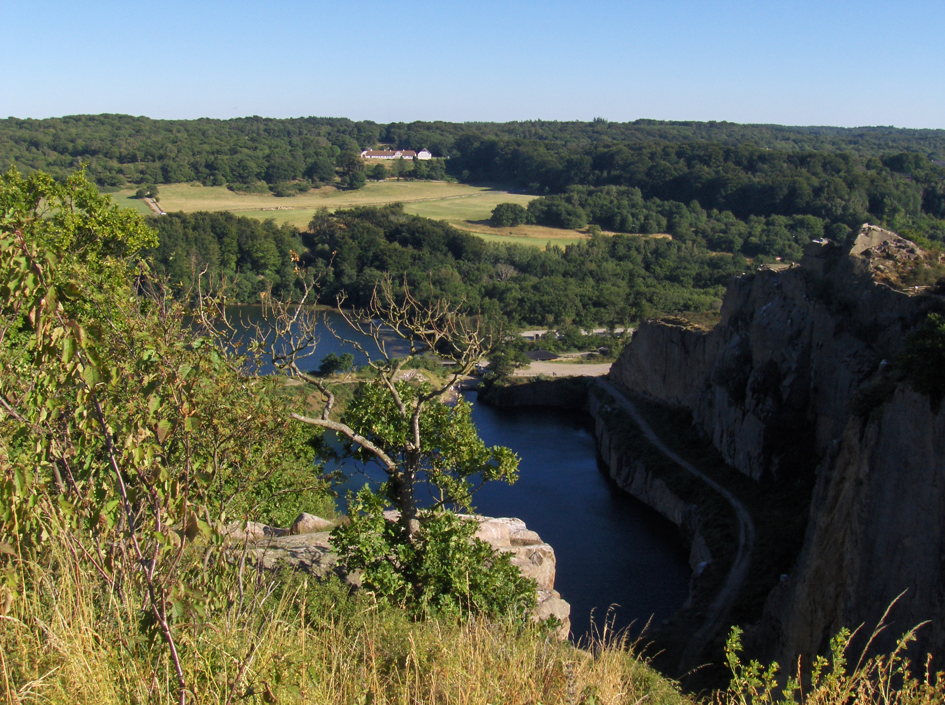 Opalsøen and Hammersøen seen from Hammerknude on the Danish island of Bornholm